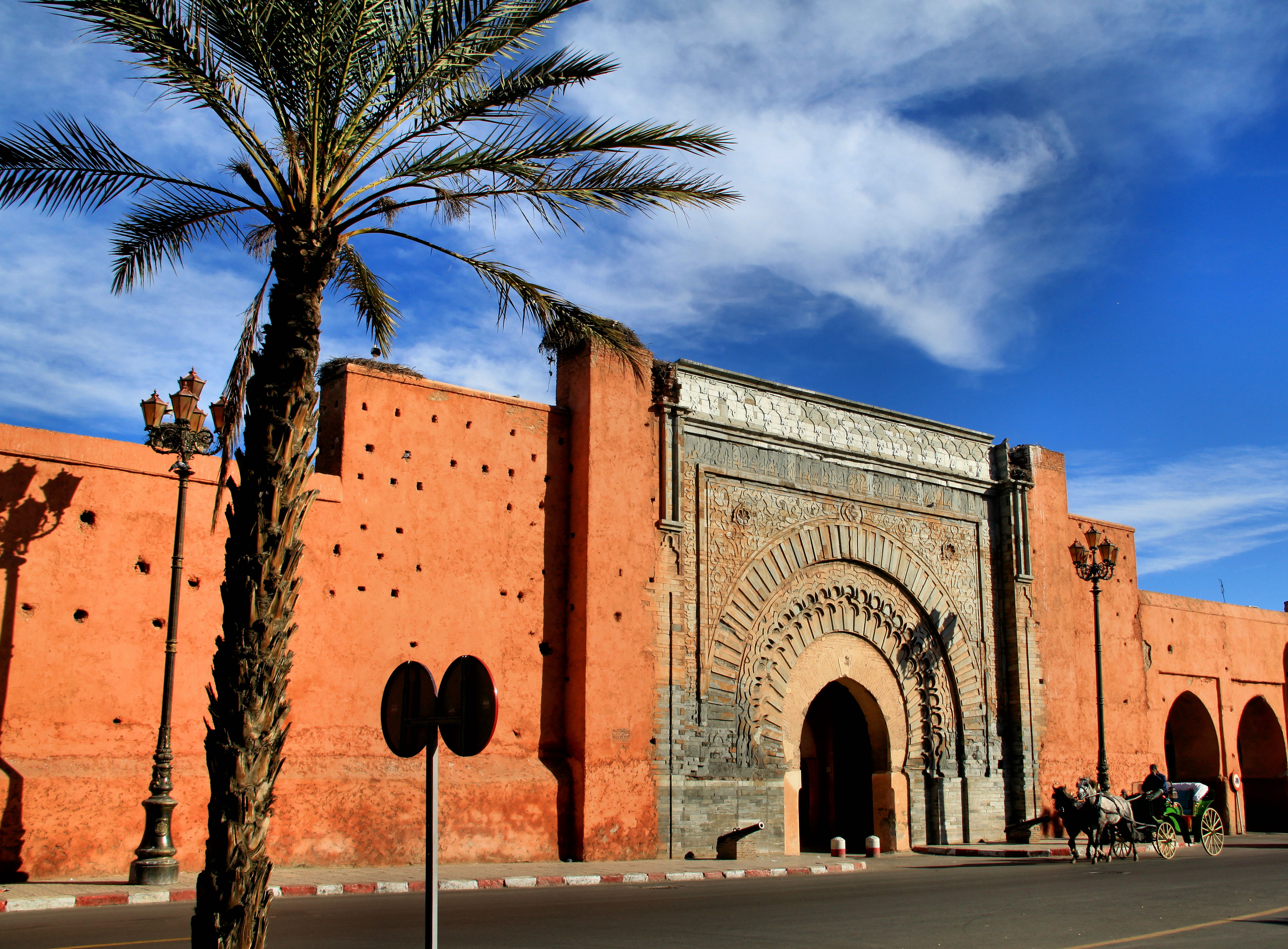 Bab Agnaou gate in Marrakech